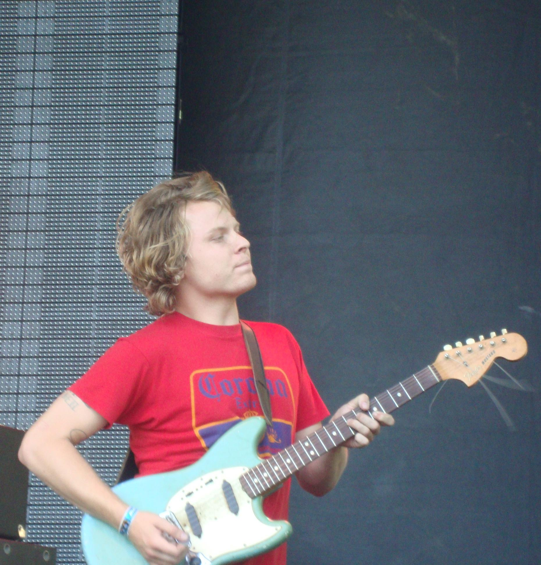 Ty Segall at the 2012 Bumbershoot Music and Arts Festival, Seattle, WA